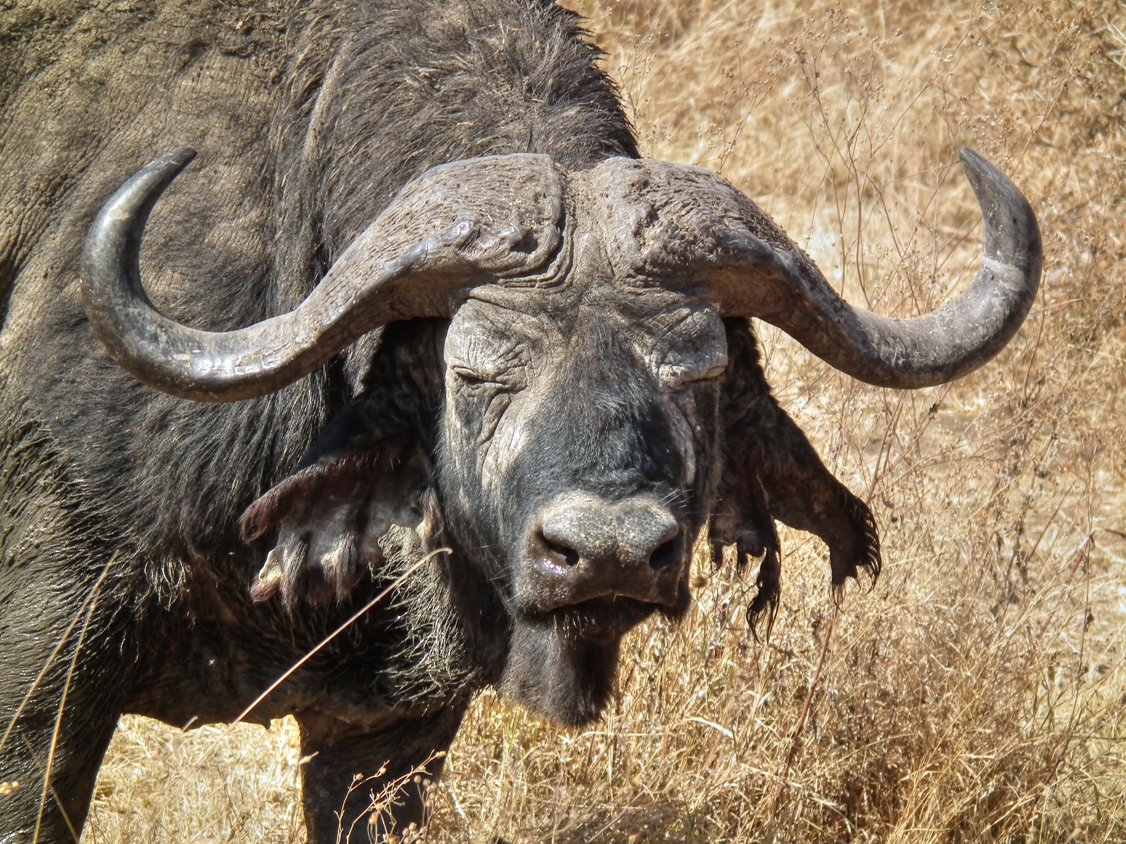 The African buffalo, affalo, M'bogo or Cape buffalo (Syncerus caffer) is a large African bovine. Photo taken in Tanzania